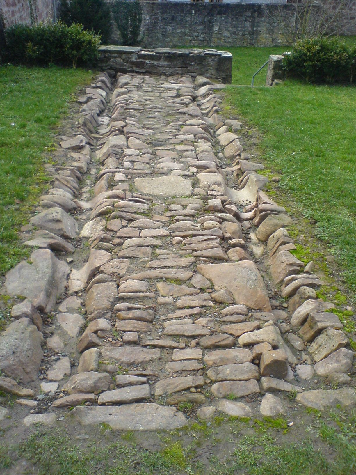 Remains of the ancient Roman road Hamburg — Leipzig (Via Regia). Excavated in 2002, restored in 2006. Situated in the town Steinau an der Straße[2] (Steinau at the road), Germany - Hence the name.